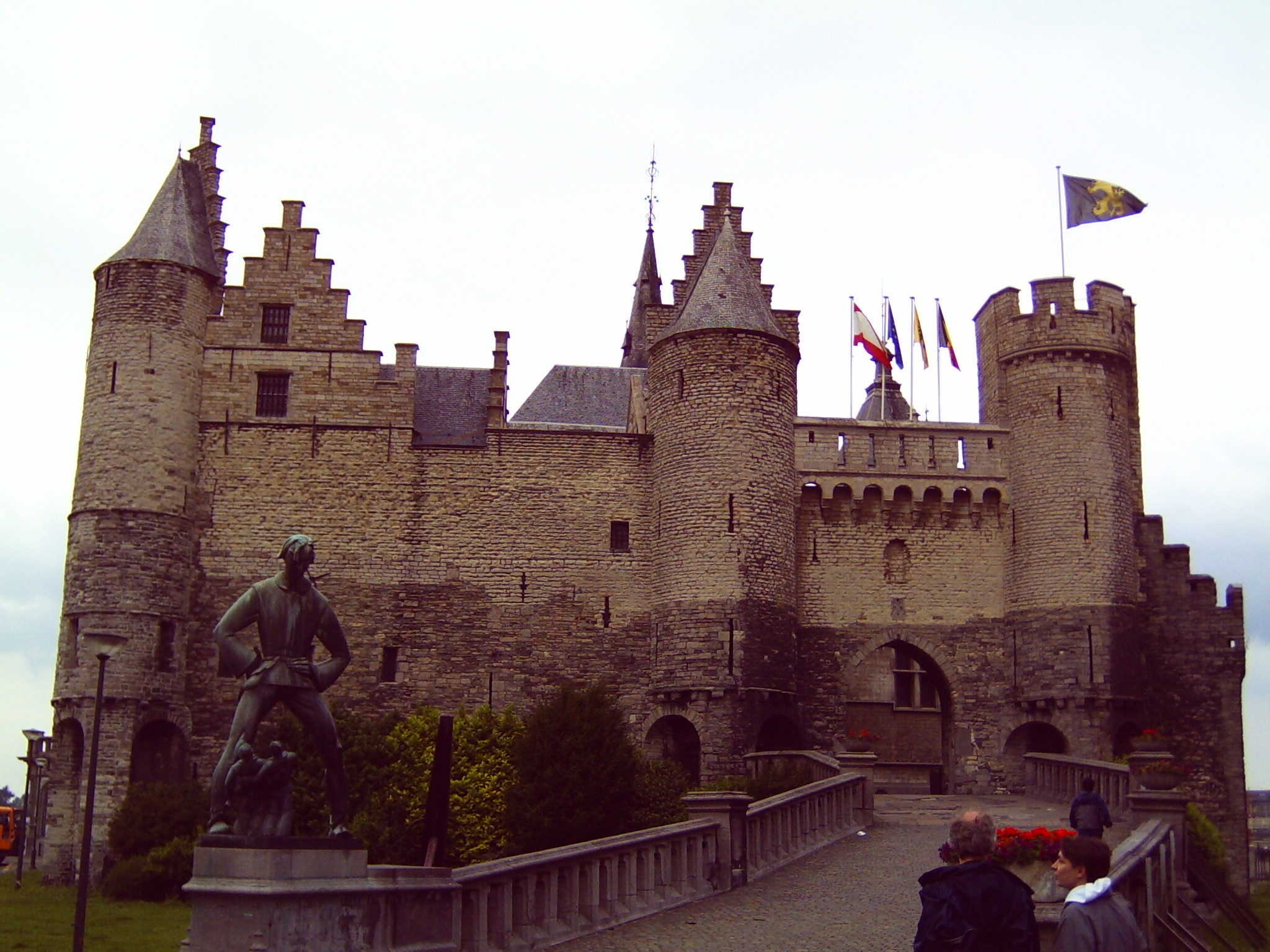 Antwerpen (Belgium): castle with the statue of "Lange Wapper"